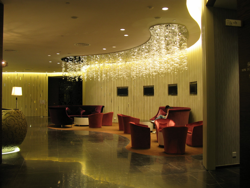 Club House at The Capitol, LOHAS Park Phase 1